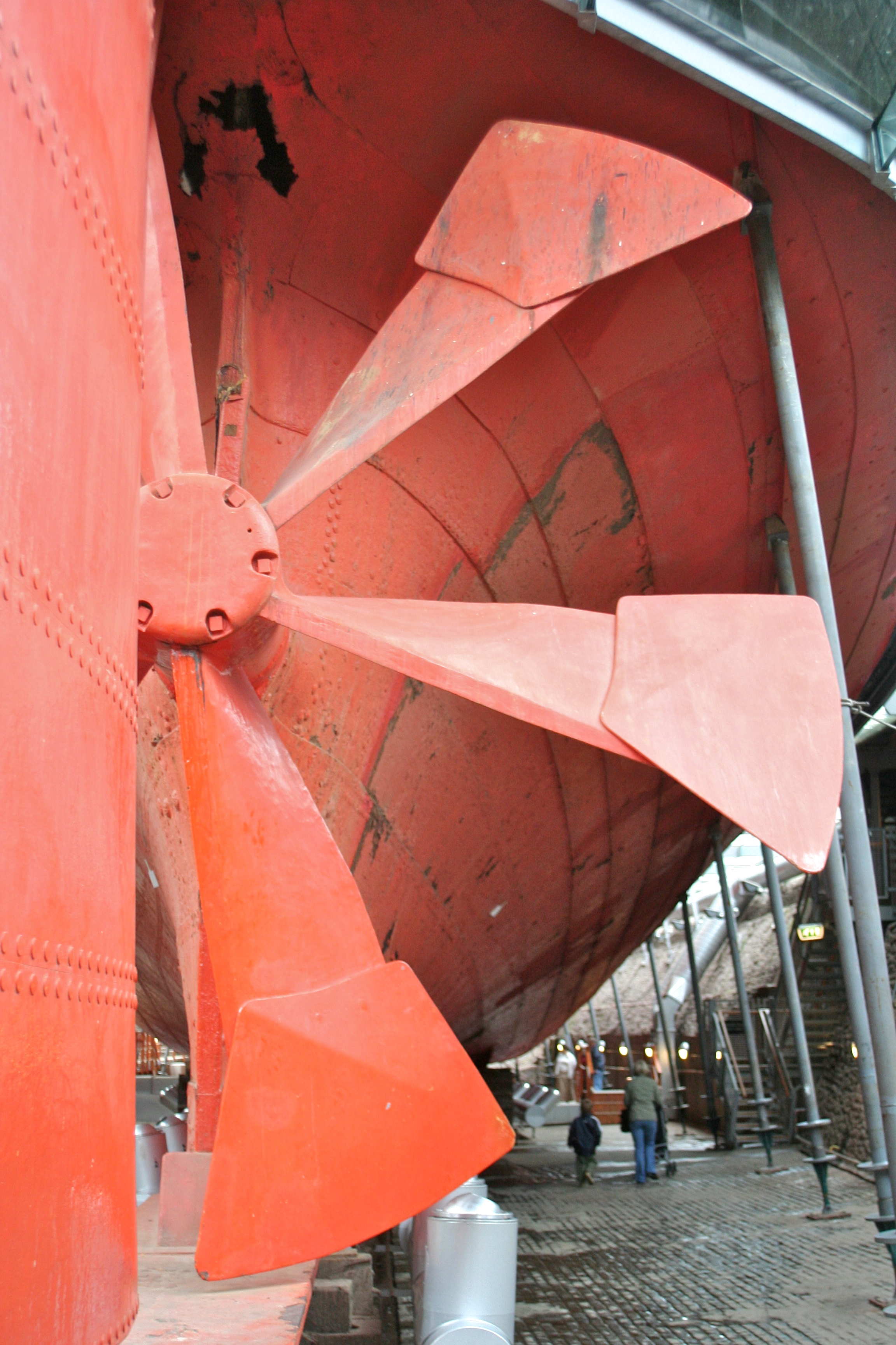 The propeller of the SS Great Britain.